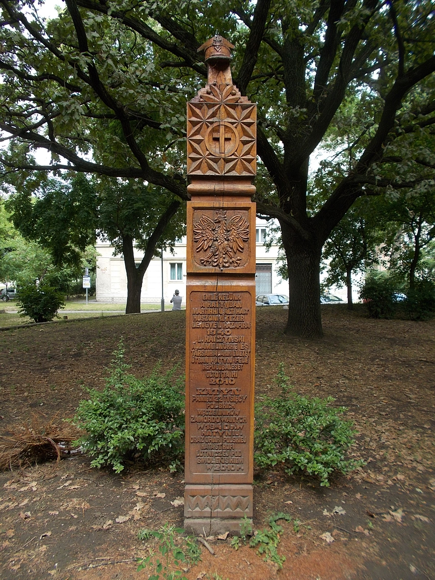 In memory of the victims of Katyn-Smolensk by Ernő Cs. Kiss ( kopjafa, Katyn massacre, 2010 works ). - Aradi Vértanuk Square / Park, Tatabánya, Komárom-Esztergom County, Hungary.